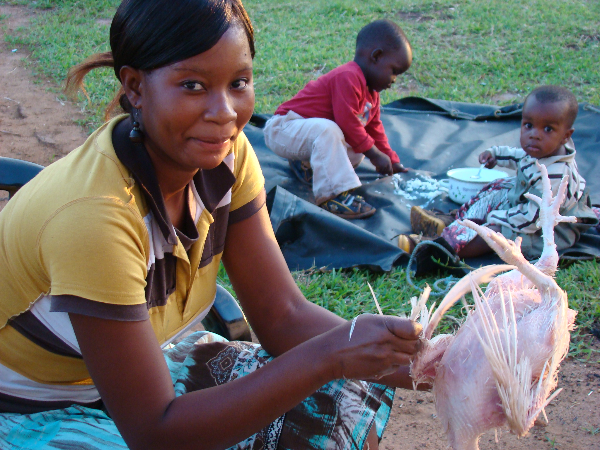 Preparing a home cooked meal in Kaoma, Zambia. This is an image of "African people at work" from Zambia